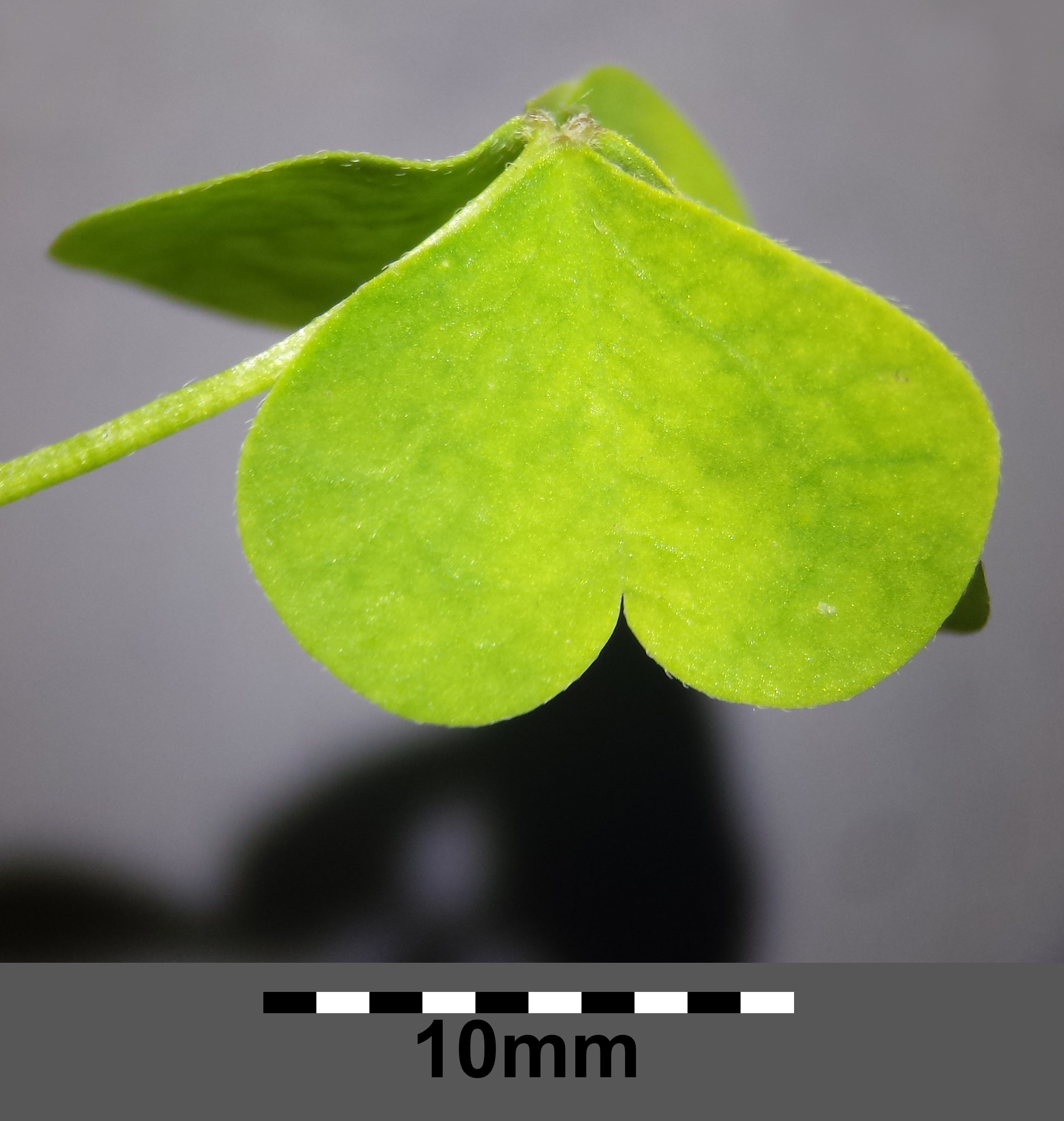 Leaf Taxonym: Oxalis dillenii ss Fischer et al. EfÖLS 2008 ISBN 978-3-85474-187-9 Location: Floridsdorf rail station, Vienna-Floridsdorf - ca. 160 m a.s.l. Habitat: ballast